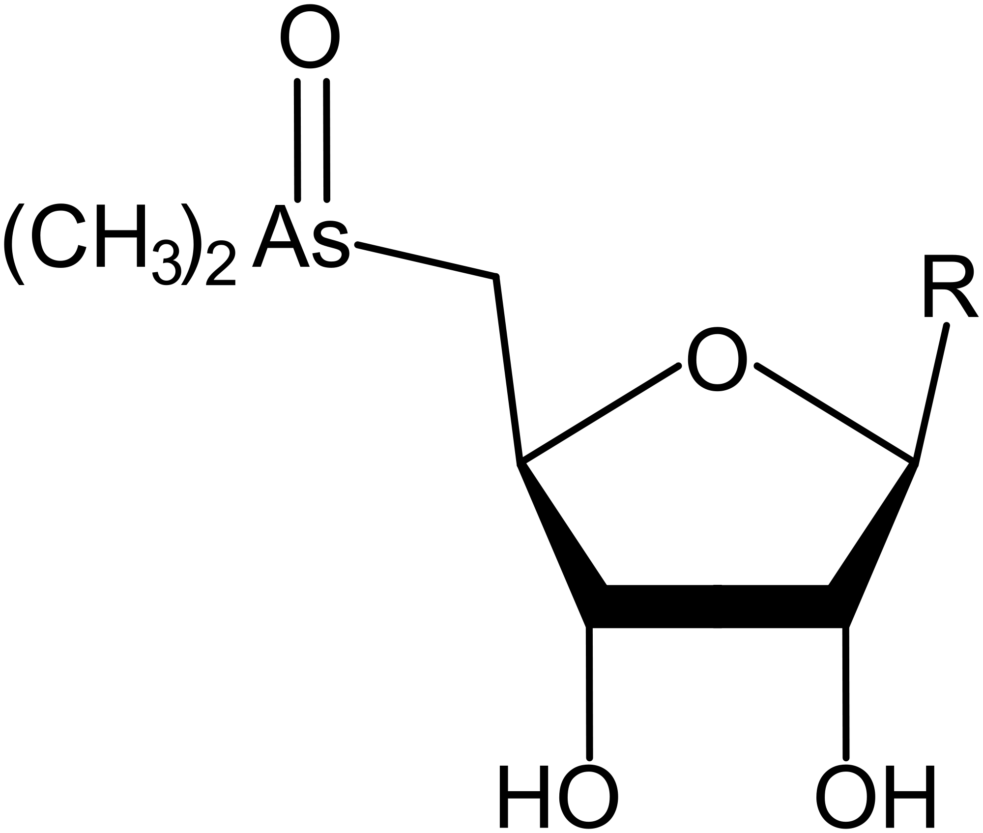 Structure of dimethyloxoarsenosugars (from J. Chem. Soc. Perkin Trans. 1 1992 1349, corrected).